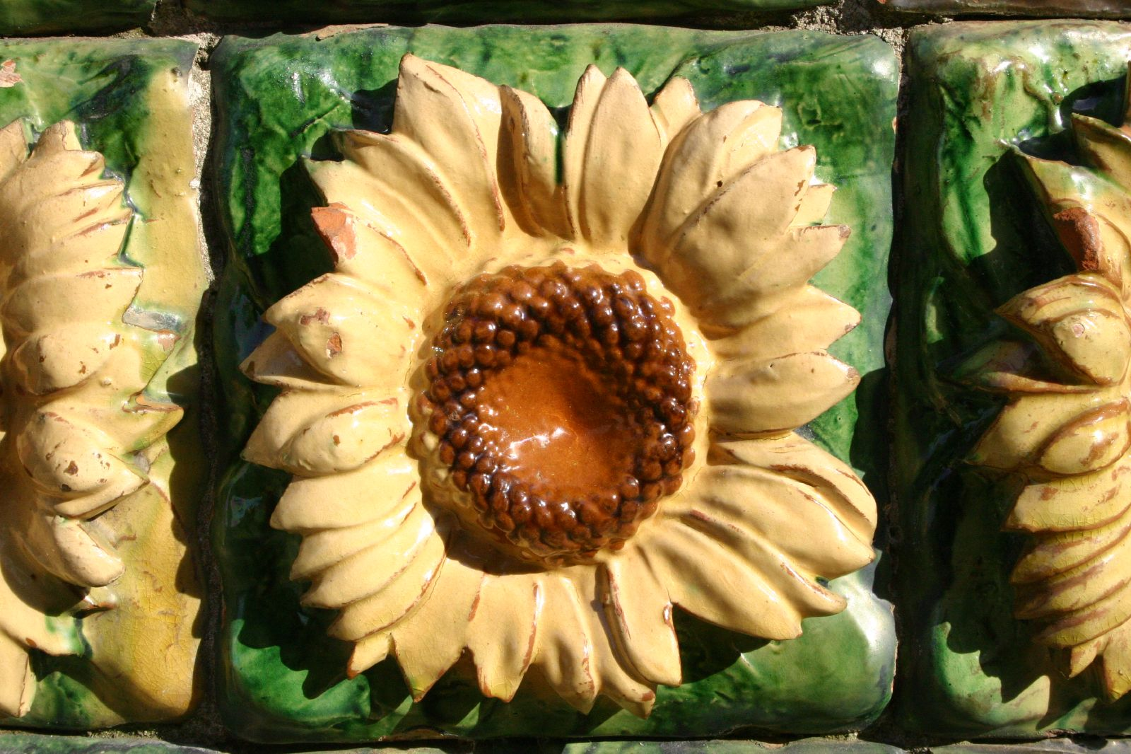 El Capricho (literally "the whim") de Antoni Gaudí, in Comillas (Cantabria, Spain). Description of the Closeup tiles